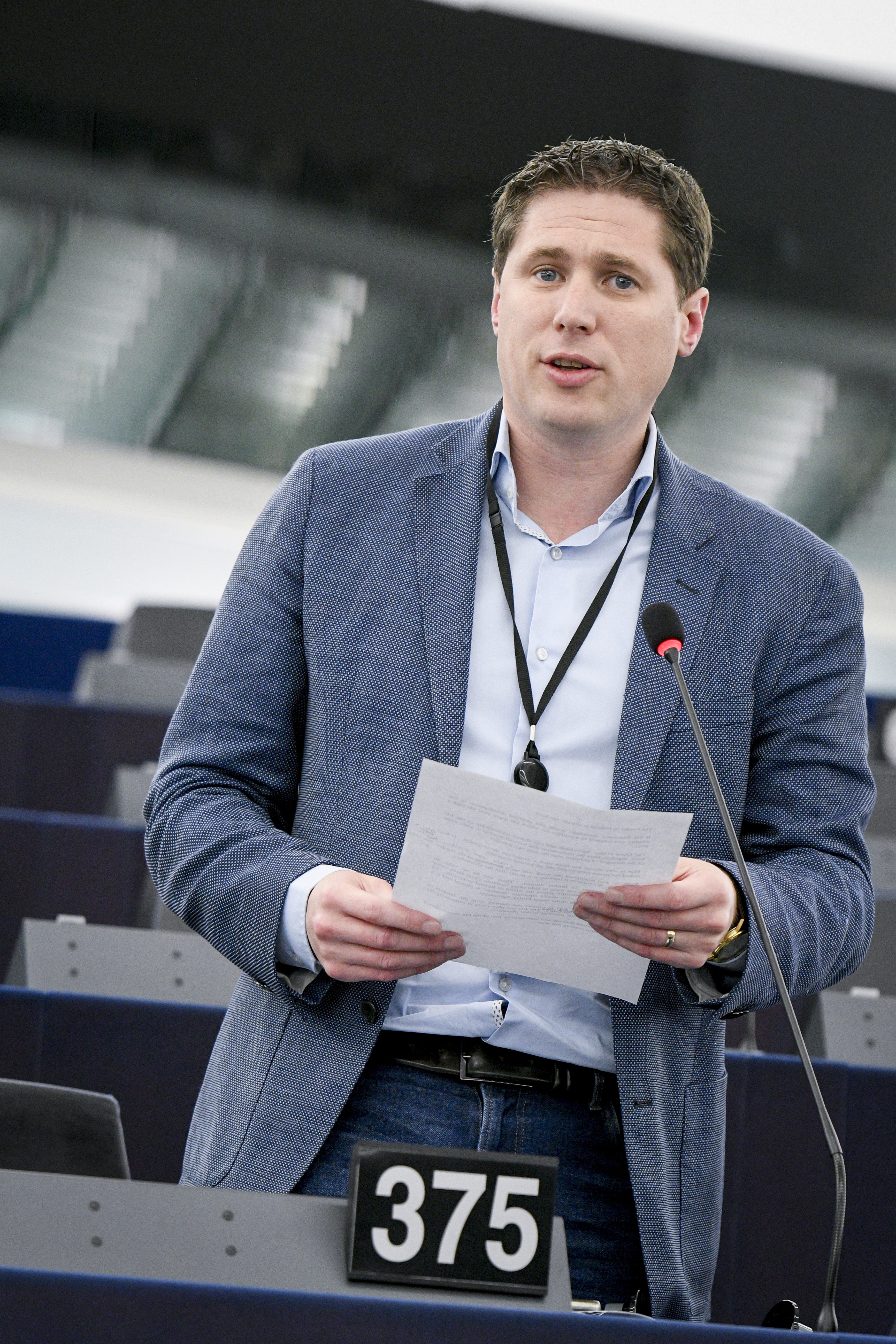 Plenary session - European Council and Commission statements - Conclusions of the European Council meeting of 17 and 18 October 2019 - Statement by the President of the Commission - Review of the Juncker Commission